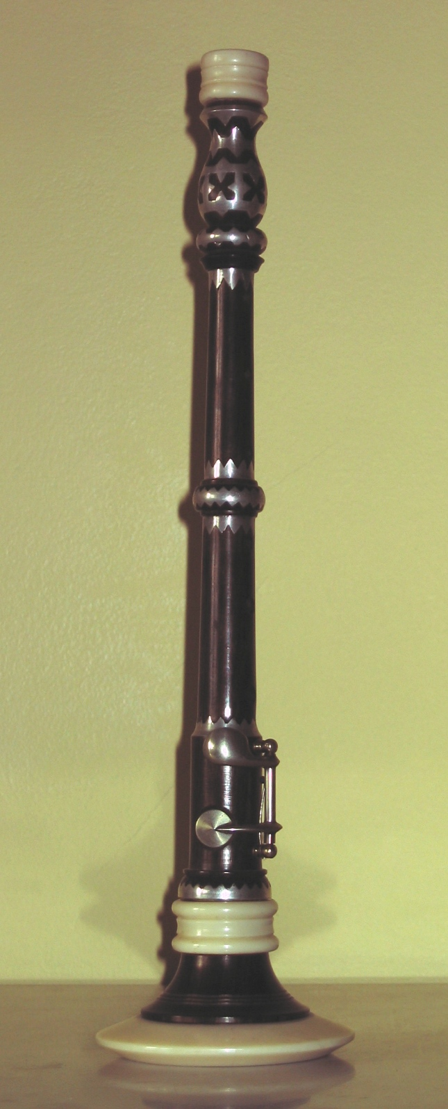 A blackwood bombarde with tin incrustations made by Dorig Le Voyer (Rennes, France), in 1969 ot 1970